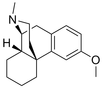 Comments Black/white .PNG exported fromChemDraw — see WikiProject Chemistry - structure drawing for detailed instructions. Please drop me a note if you need the source file. Category:Chemical structures (Original text: Chemical structure of Dextromethorphan)